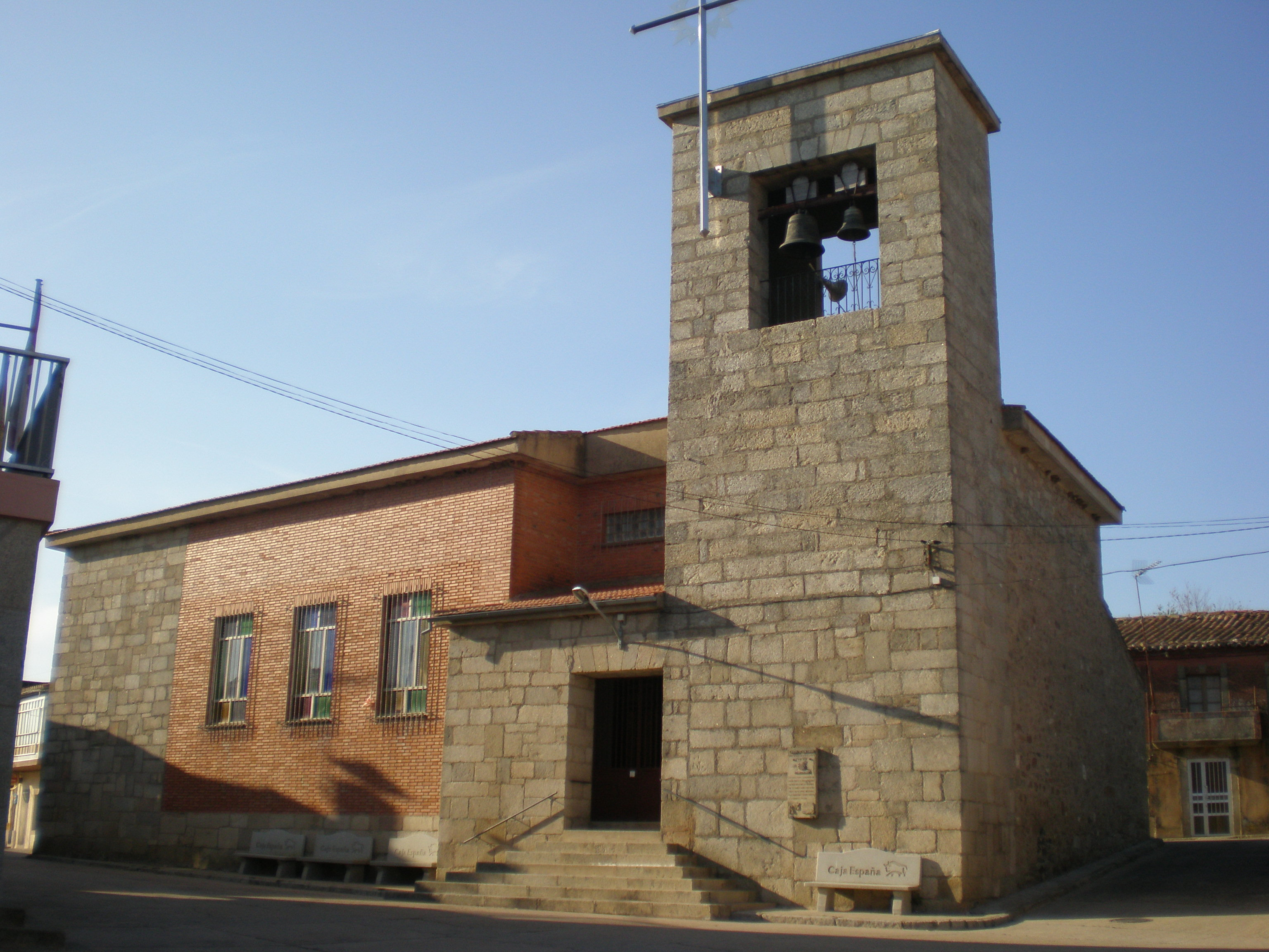 Año 1971